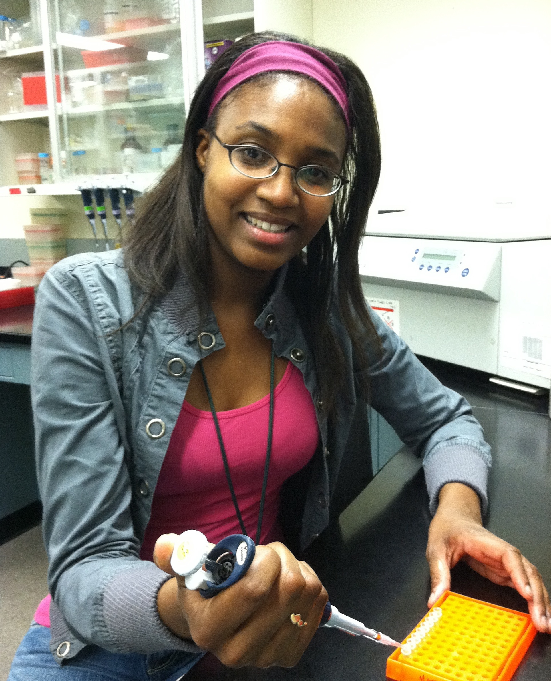 Lynika Strozier in her lab, taken by her friend Corrie Moreau, deputy director of the Field Museum. Ms. Strozier was known for reaching out to young people, and encouraging them to consider studying for a job in Science.